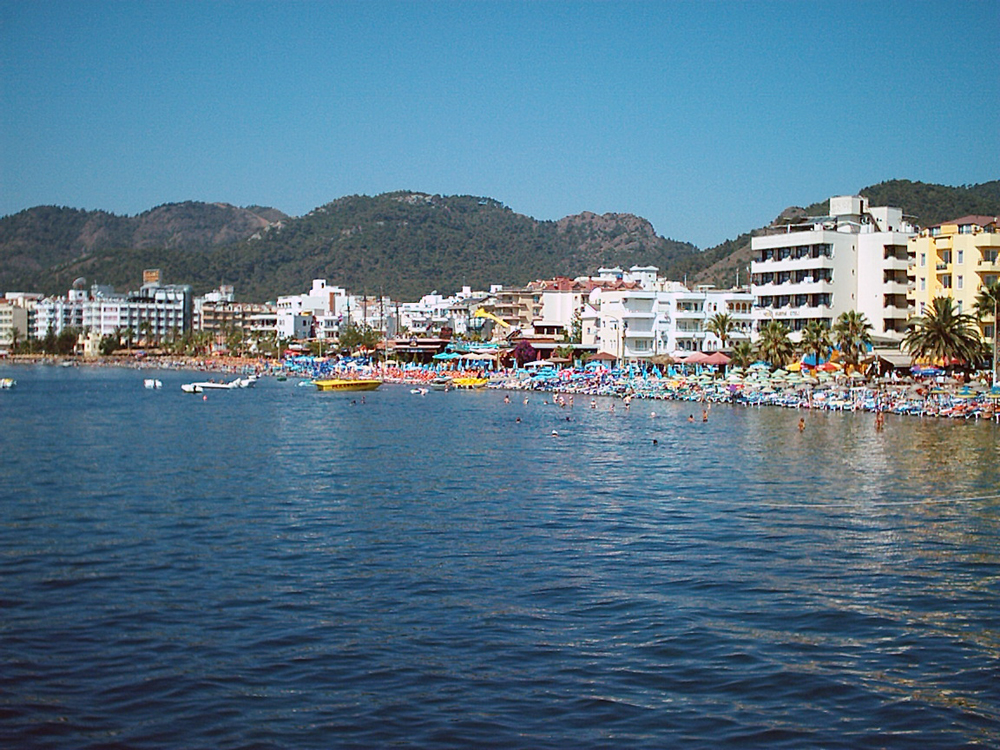 Marmaris beach